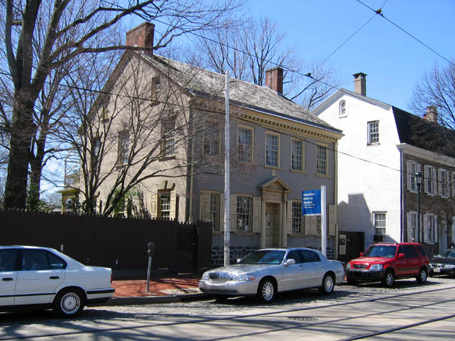 Germantown White House (formerly the "Deshler-Morris House") in Philadelphia, Pennsylvania